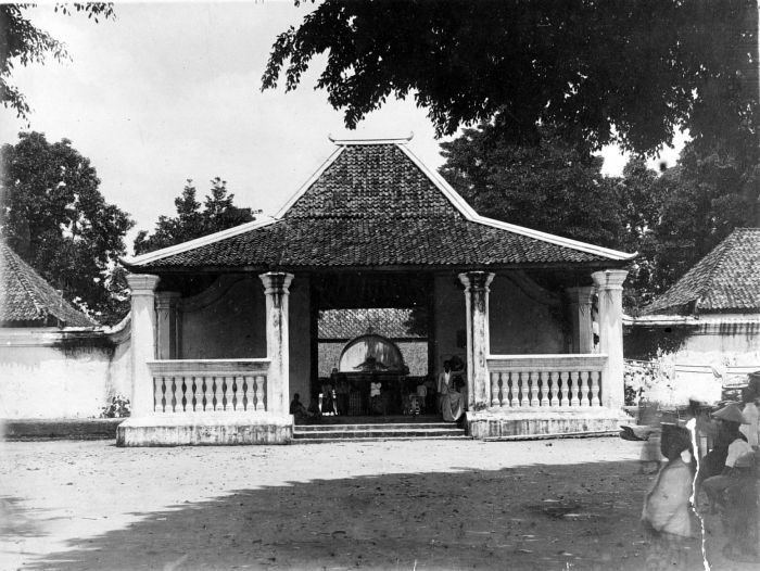 Entrance gateway to the Kauman Grand Mosque, the royal mosque of Yogyakarta Sultanate